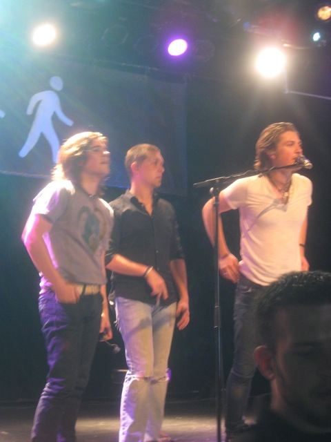 Hanson at the Vancouver date of their "Walk Around The World Tour"